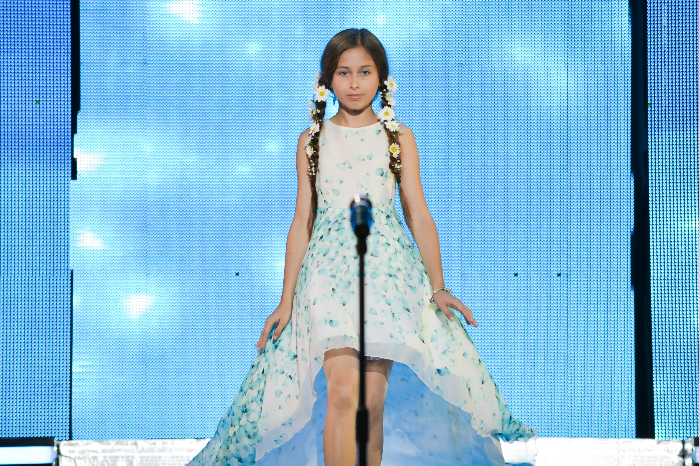 Dasha Pyshnaya at Slavianski bazar 2015